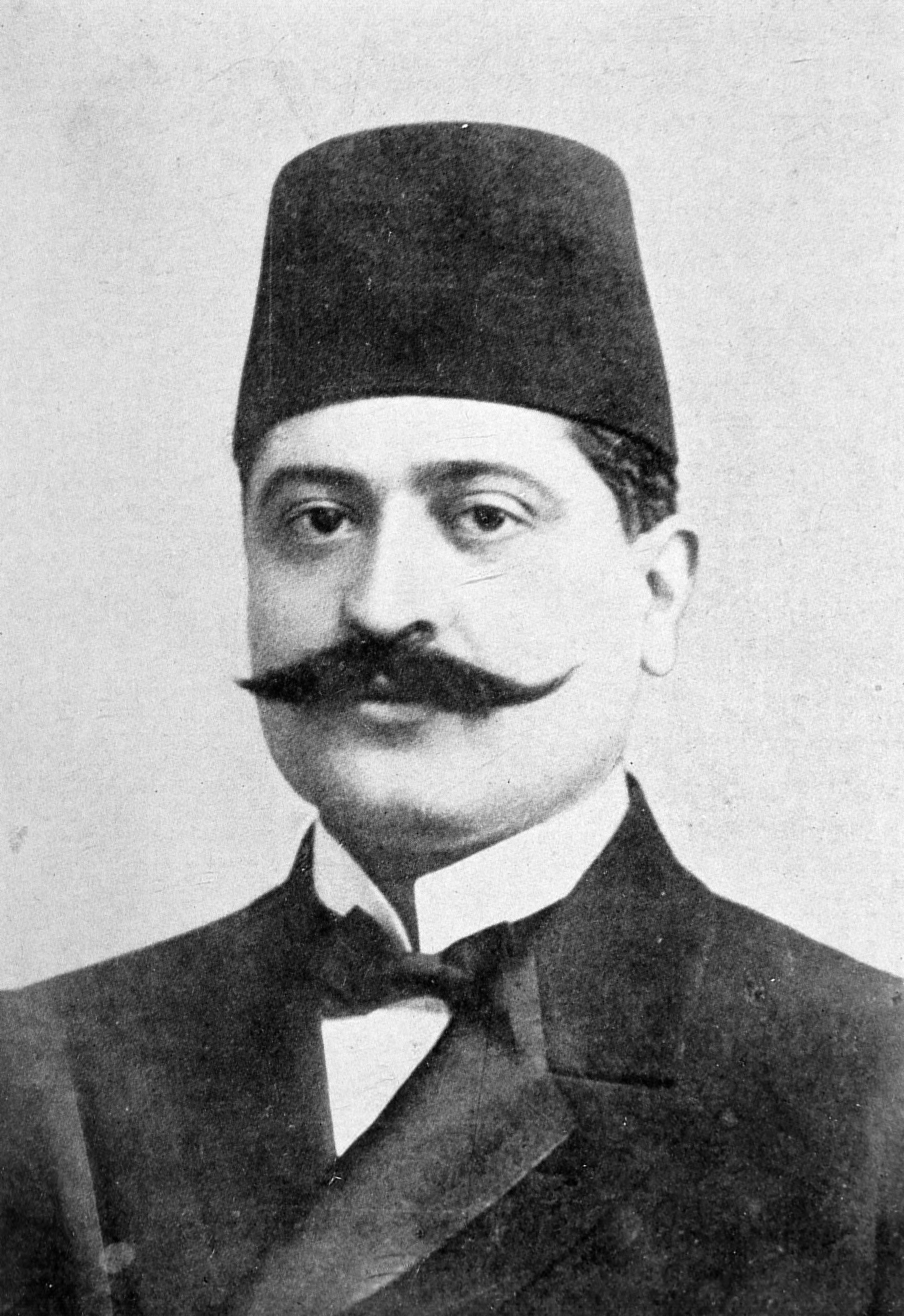 Talaat Bey